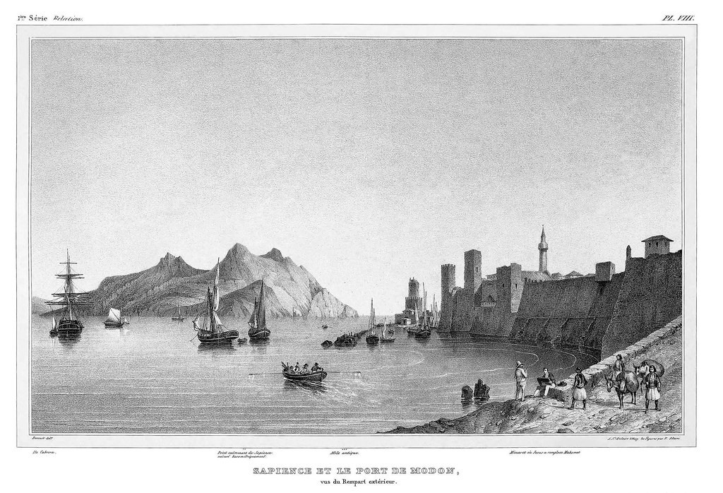 Sapience et le Port de Modon vus du rempart exterieur (Prosper Baccuet)